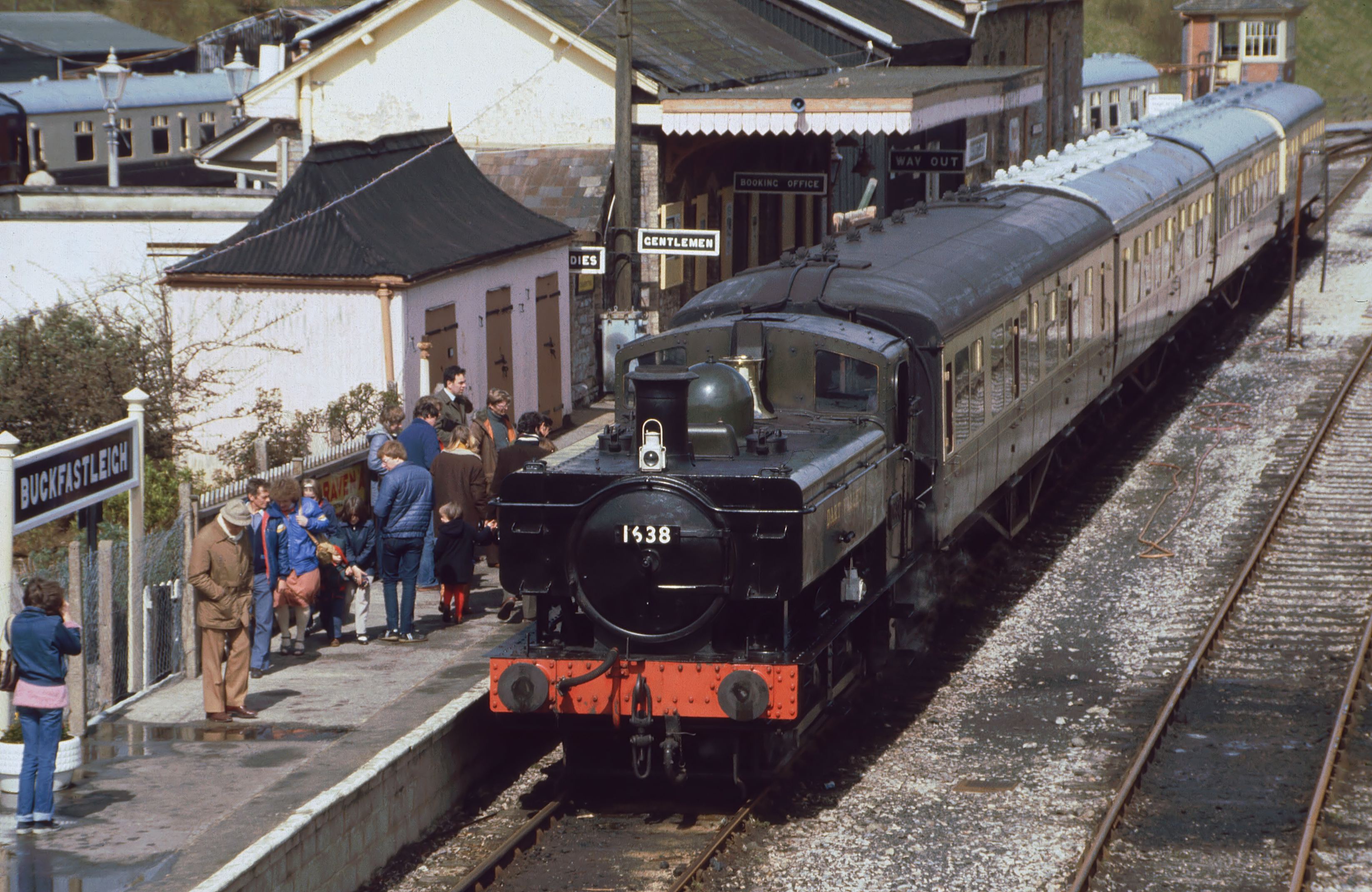 South Devon Railway station at Buckfastleigh, Devon/England